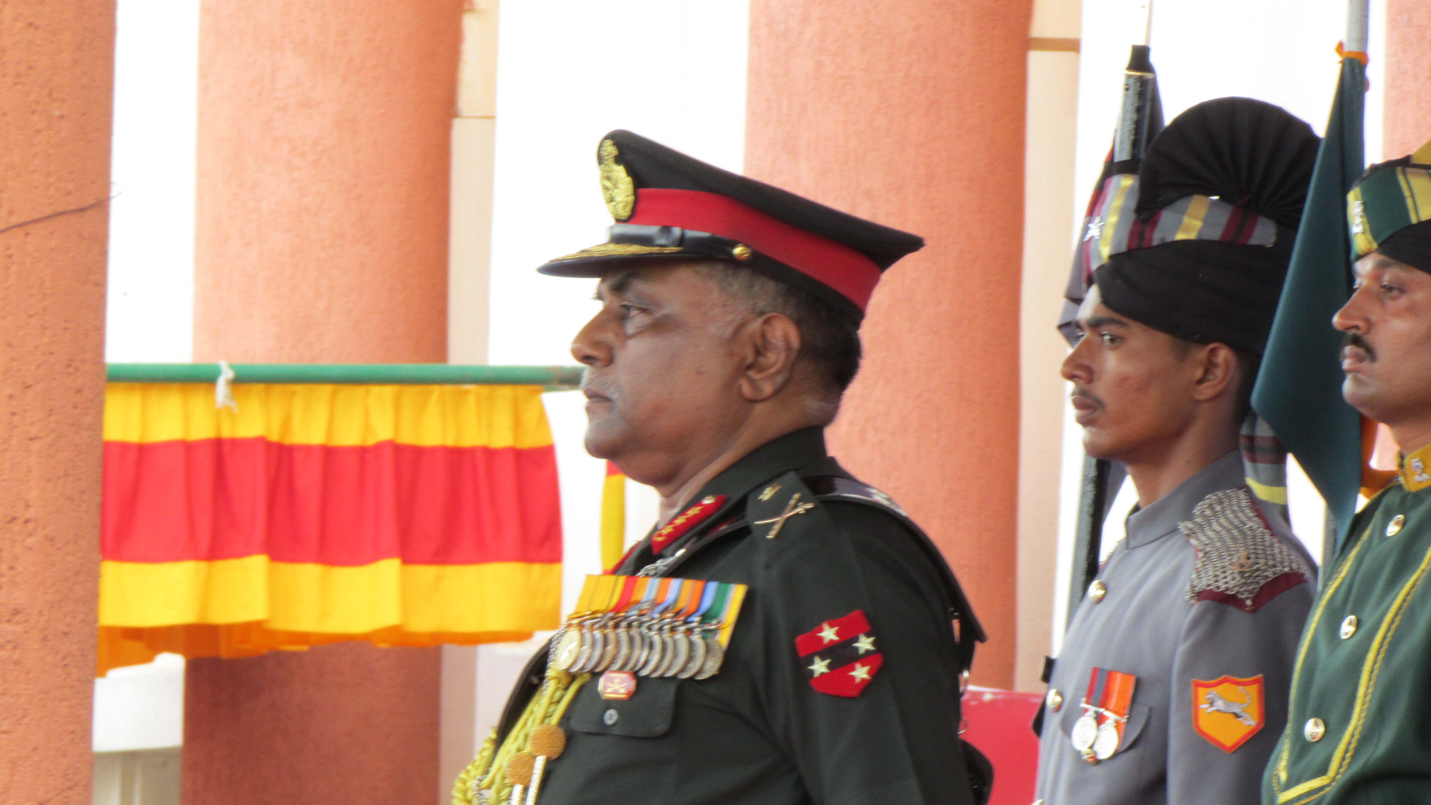 Felicitation Ceremony Southern Command Indian Army Bhopal